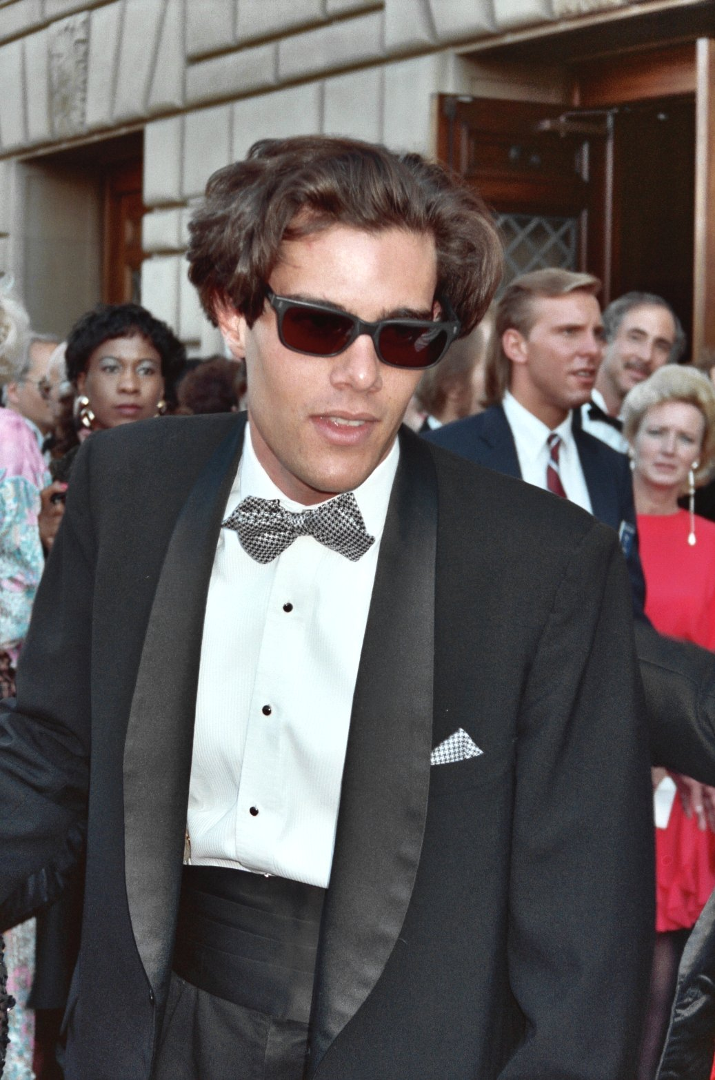 1990 Emmy Awards. Scanned from the original 35MM film negative.